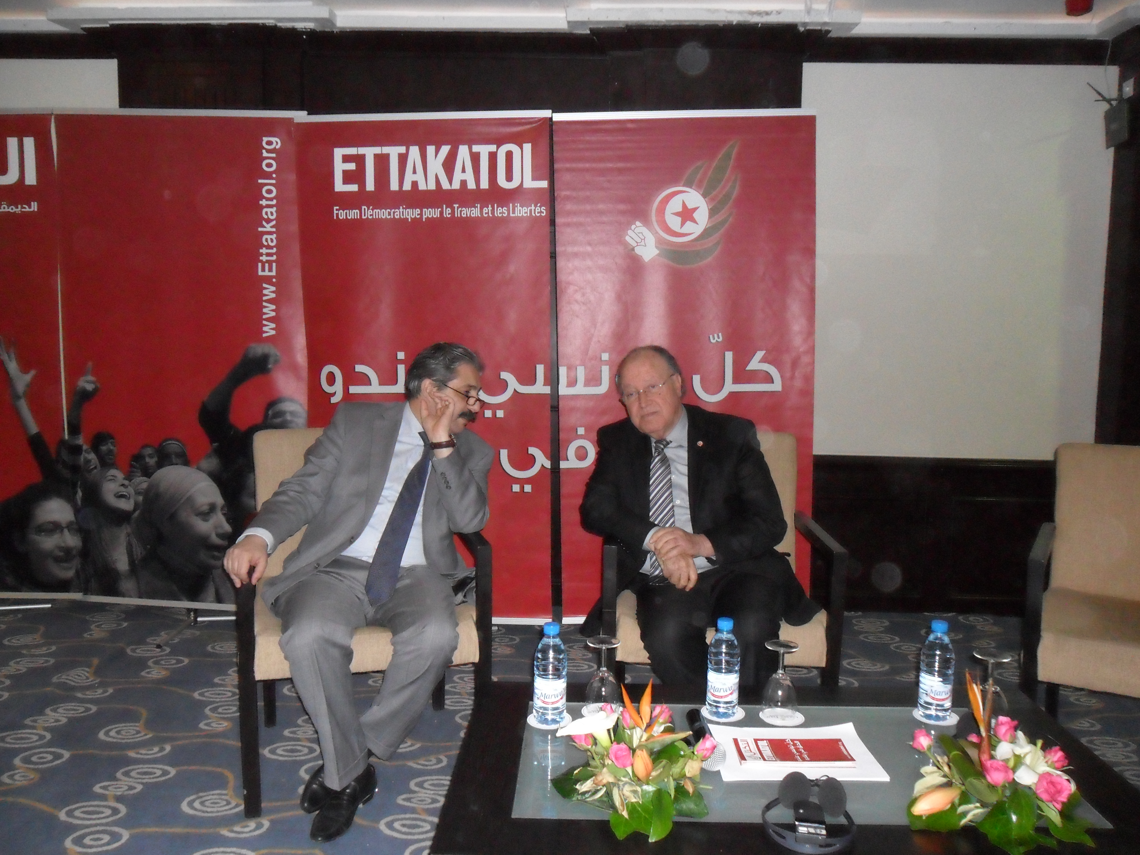 Ettakatol party leaders, Khalil Zaouia and Mustafa Ben Jaafar